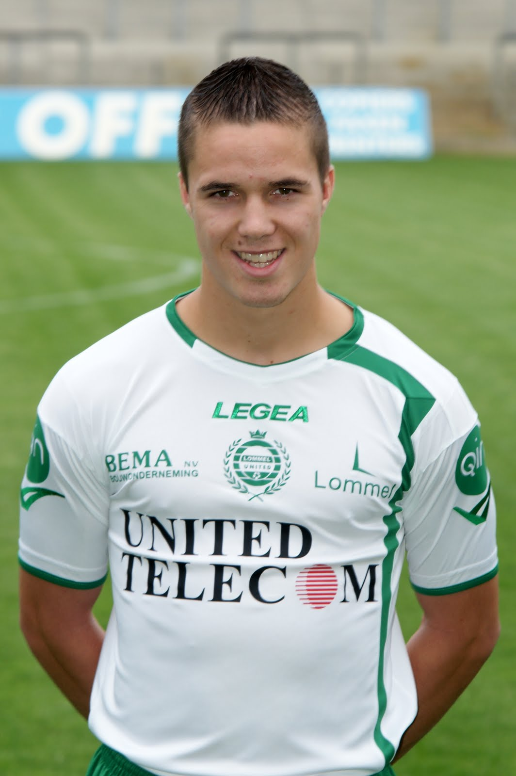 Attacker